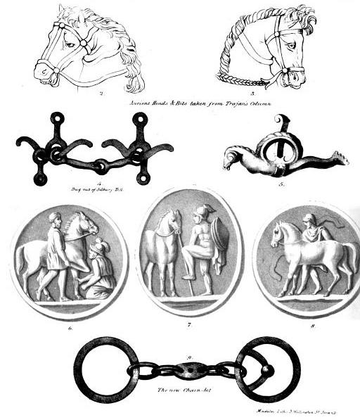 Illustrations of traditional horse harness, from Bracy Clark, A Treatise on the Bits of Horses (18350.